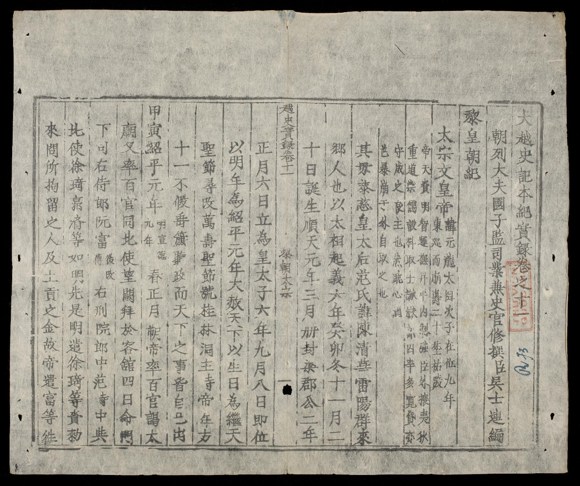 A page of the Đại Việt sử ký toàn thư